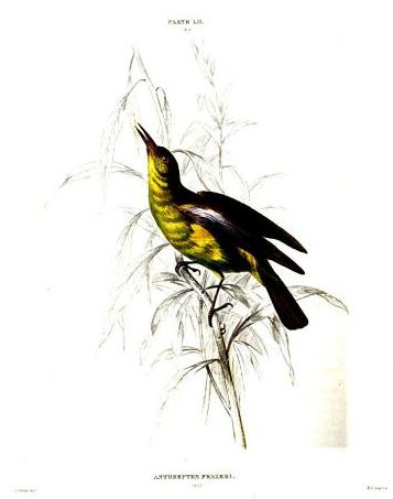 Fraser’s Sunbird Deleornis fraseri Syn: Anthreptes frazeri illustrated by James Hope Stewart (1789–1883)